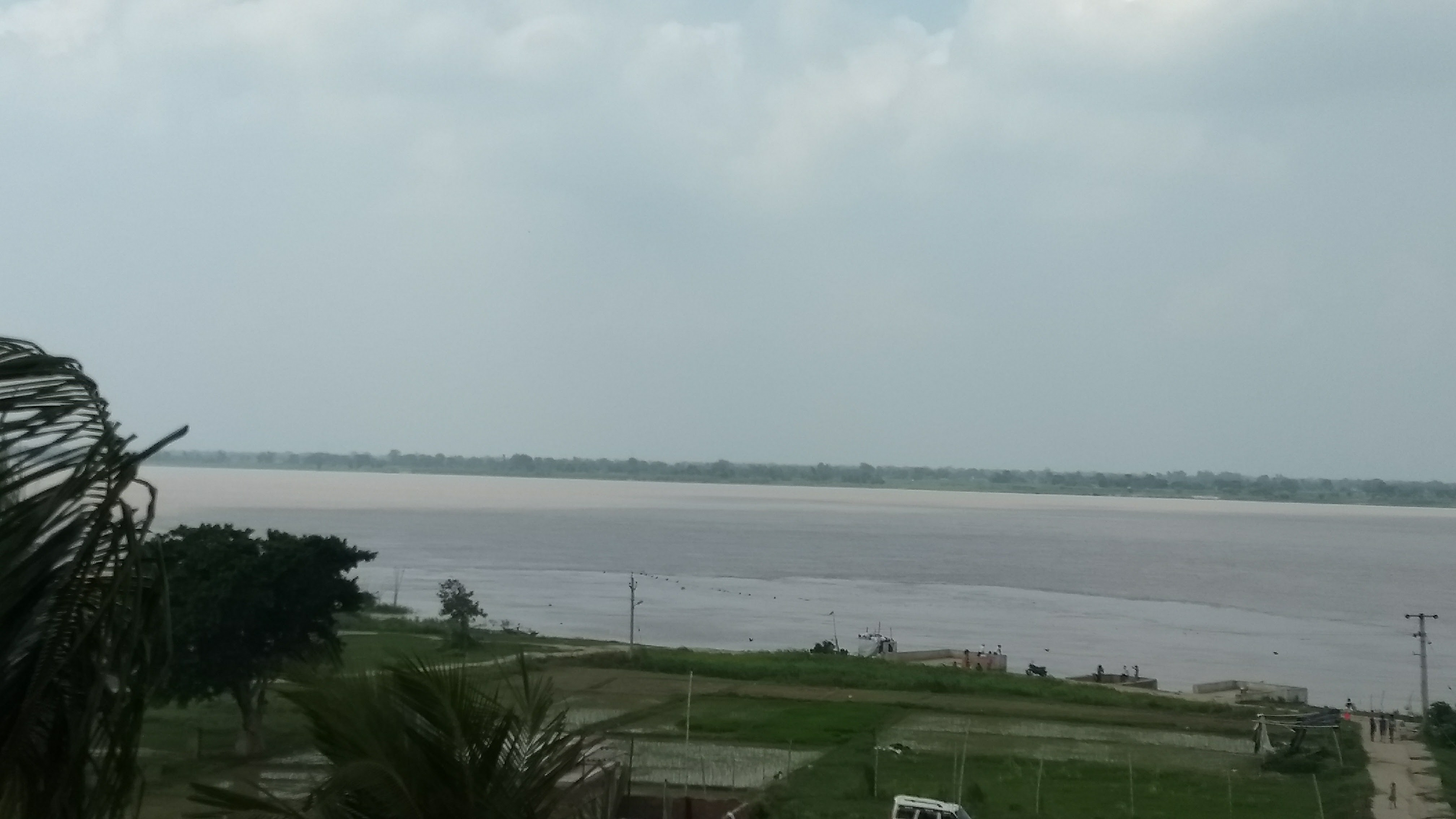 The picture was taken from purani chowk area of fatuha shows the point where punpun river and ganges meet